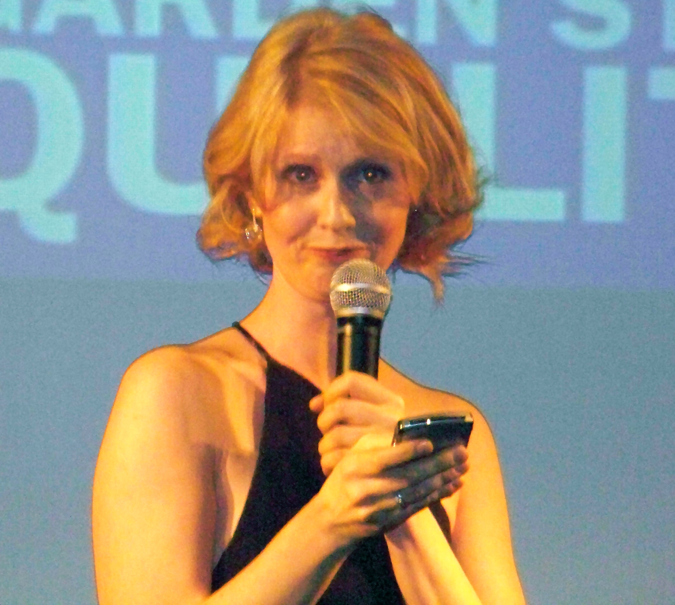 Actor Cynthia Nixon at the Garden State Equality gala dinner, Maplewood, NJ (15 Mar 2008)